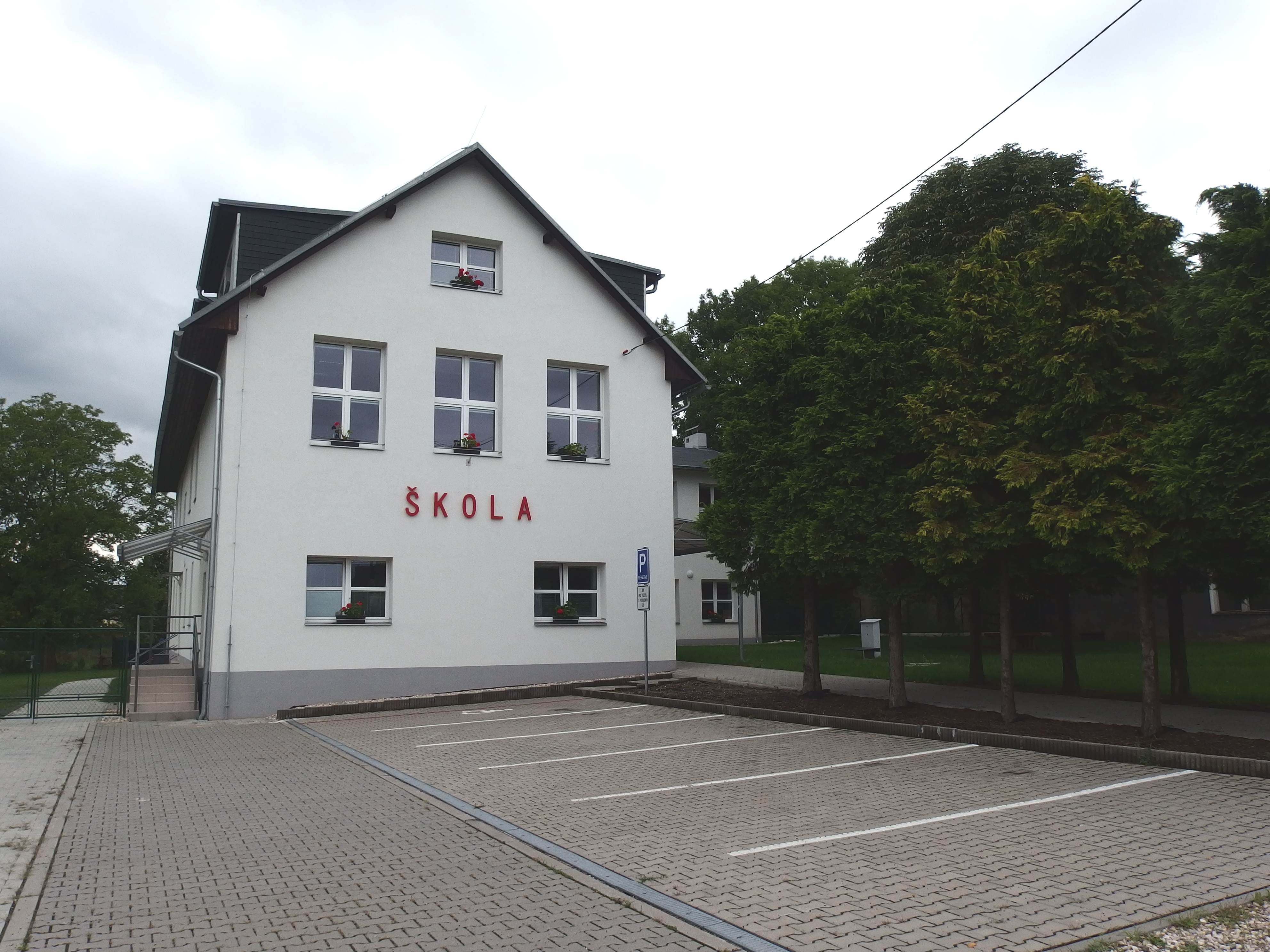 Hlučín, Opava District, Czech Republic, part Darkovičky.